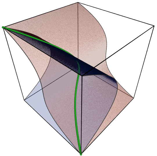 Twisted cubic with xy and xz surfaces in the interval [-1,1]